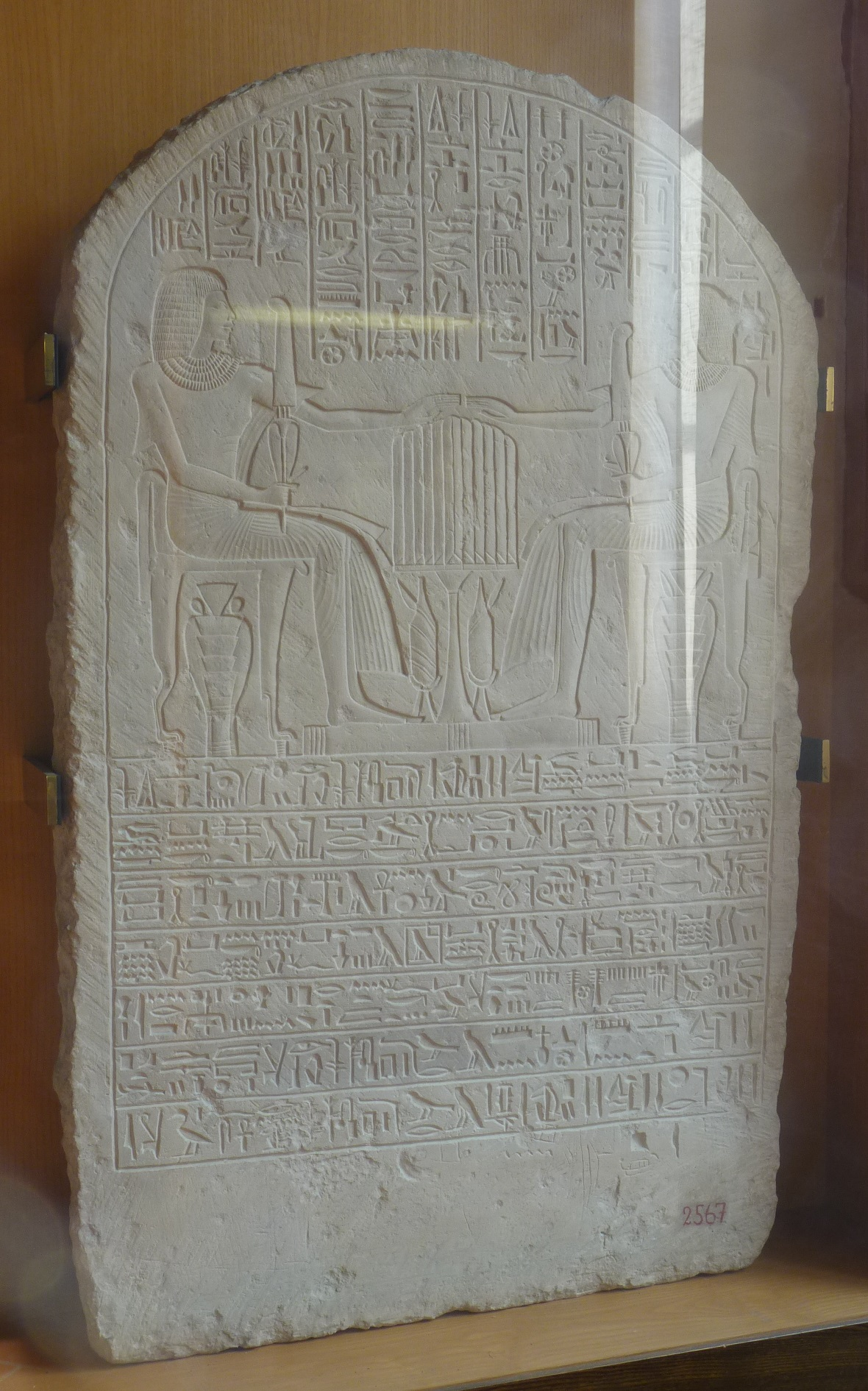 Stele for Amenhotep (Huy), left, and his son Ipy, right. Both were royal scribes and high stewards in Memphis during the 18th dynasty. White limestome from Saqqara, reign of Amenhotep III and IV, 18th dynasty, New Kingdom. [ref: Sergio Bosticco, Museo archeologico nazionale di Firenze, Le stele egiziane del Nuovo Regno, 1965] Florence, Museo archeologico nazionale, Nizzoli coll., Inv. n. 2567.